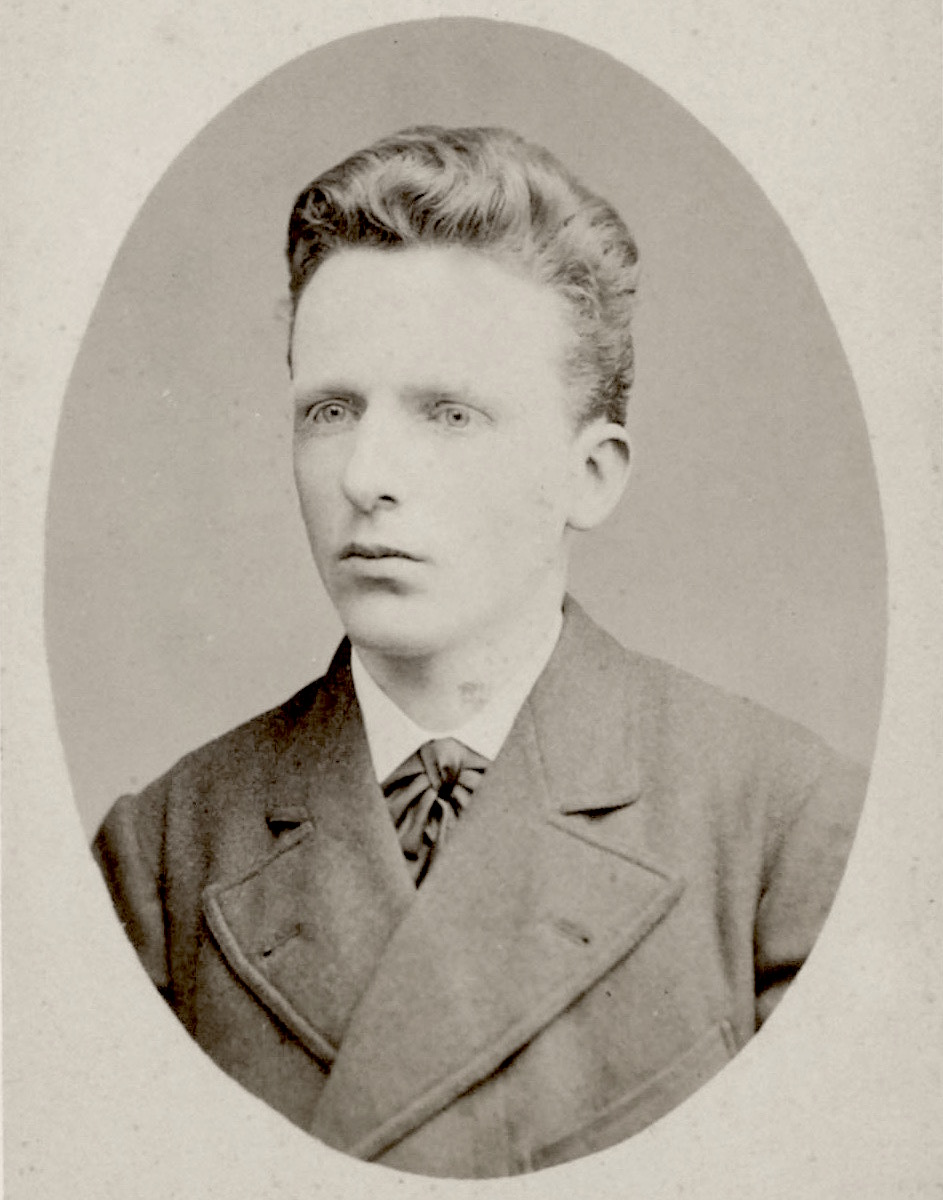 Theo van Gogh